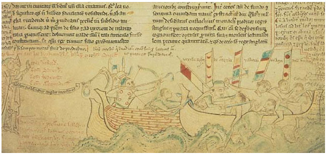 Eustace the Monk, from Matthew Paris manuscript at Corpus Christi College, Cambridge